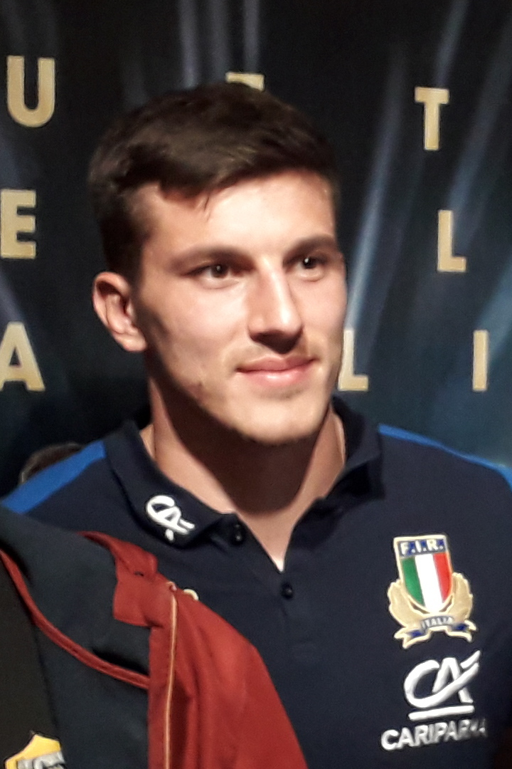 The Italian rugby union player Tommaso Allan during an event in Rome at the Macron Store before the 2018 Six Nation test match vs Scotland